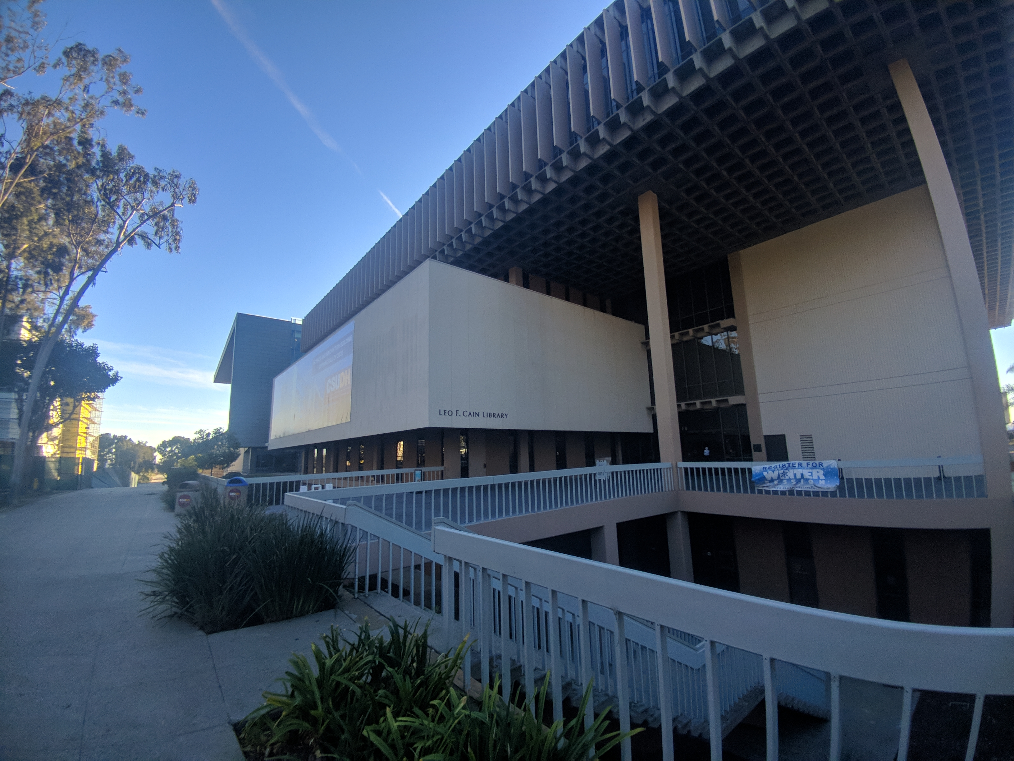 A picture of the library on csudh